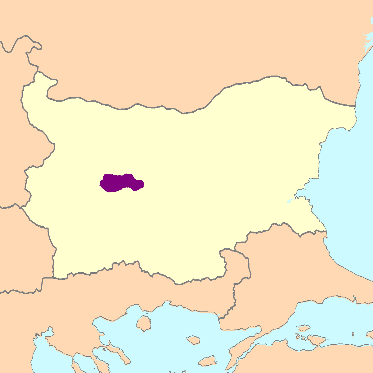 Koprivshtitsa Sheep area of distribution